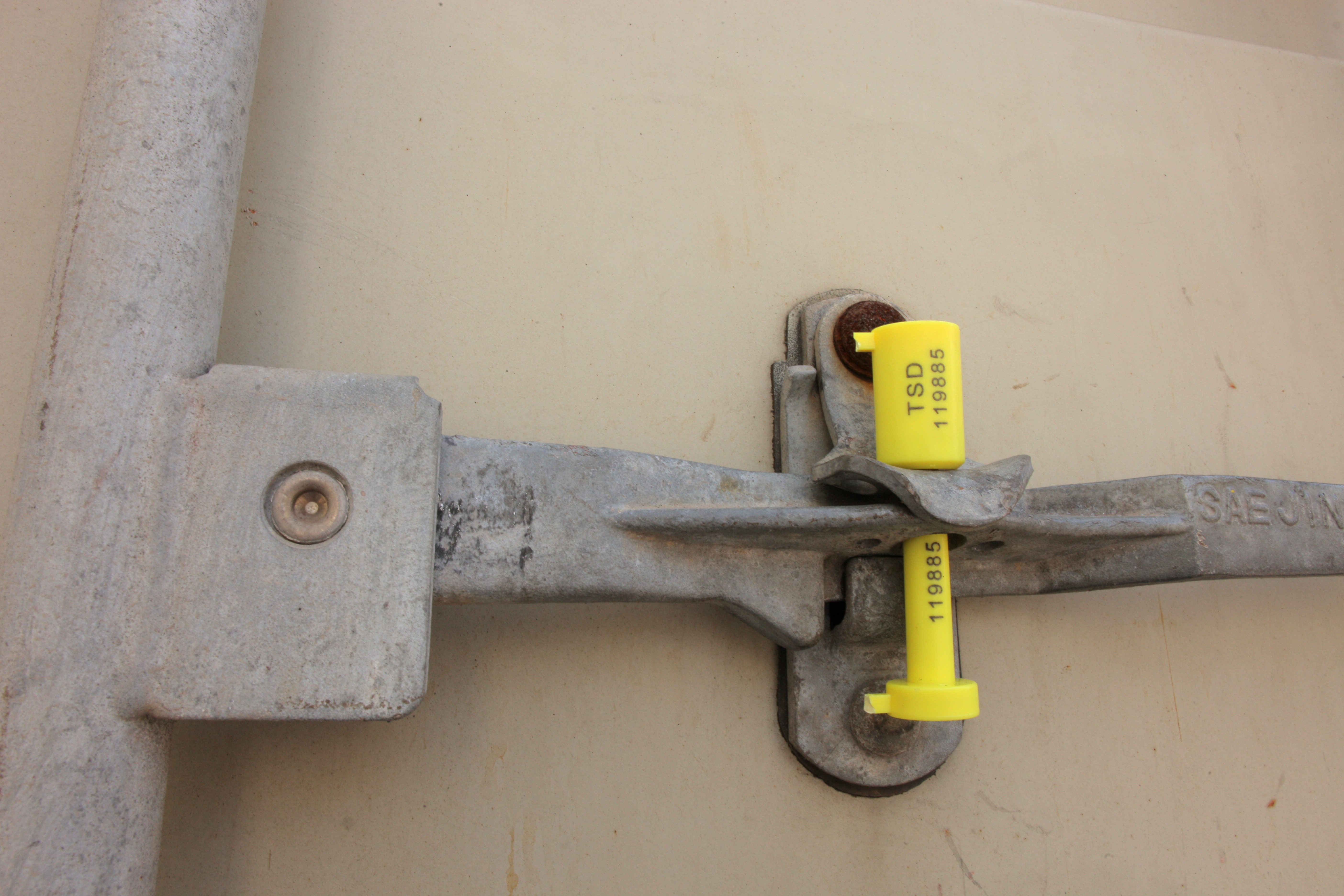 ISO Container (Customs-) Sealing (Bolt Sealing)